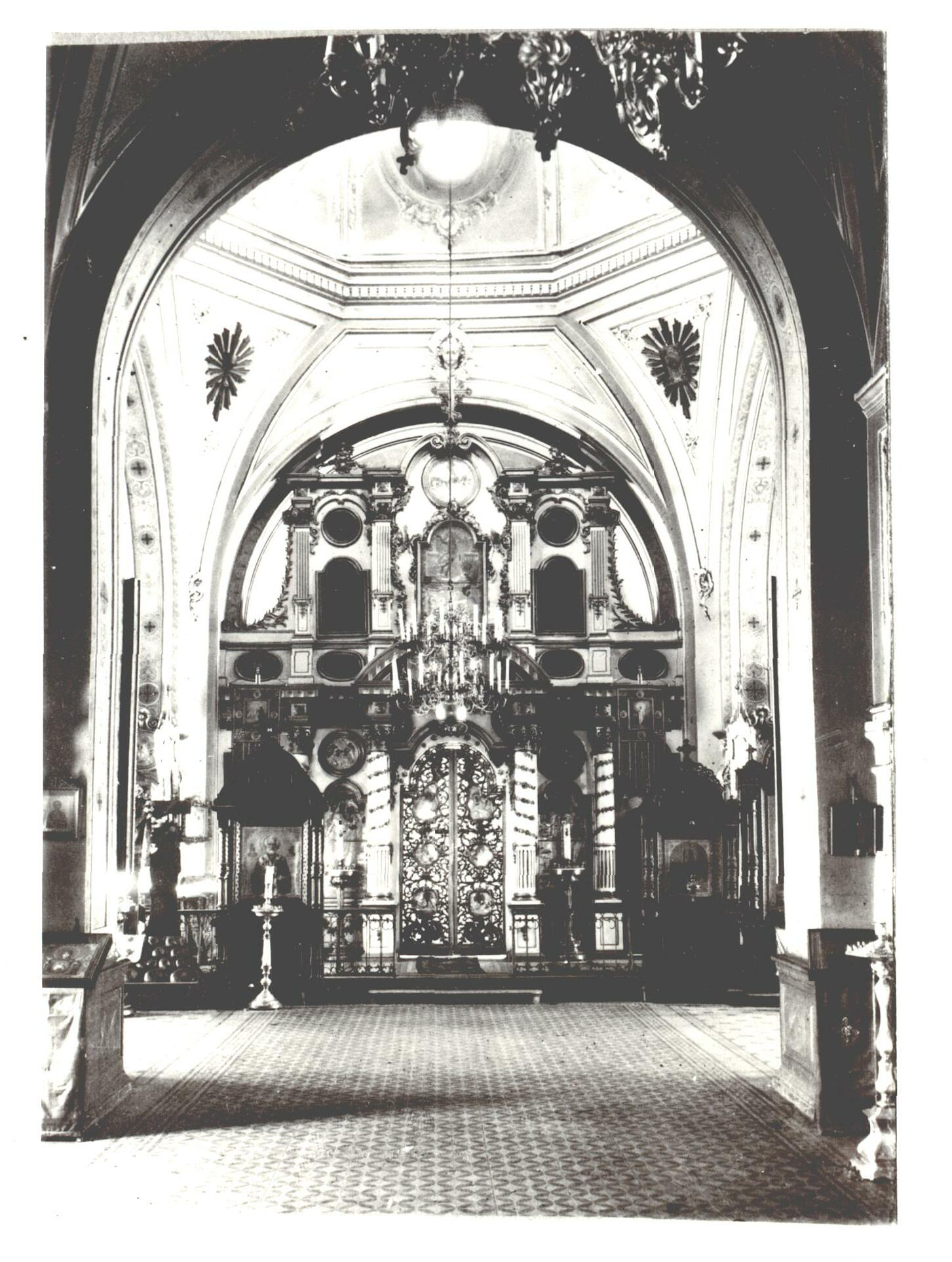 Trinity church, Krasnoye Selo (Russia)